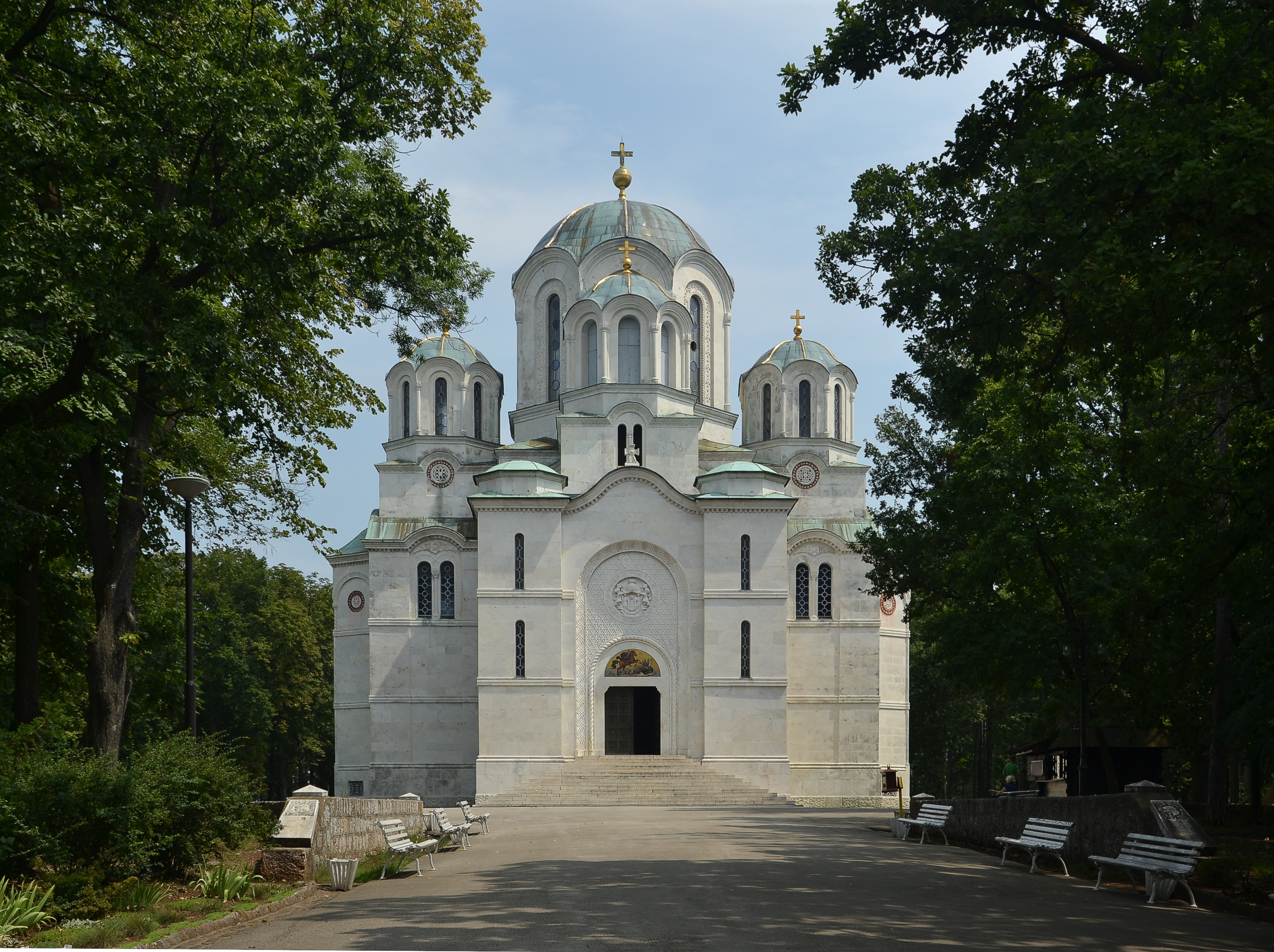 Church of St. George in Topola, Serbia